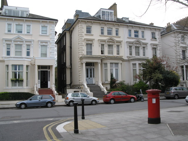 Houses in Belsize Park Gardens, NW3. Shows the location of 762260.